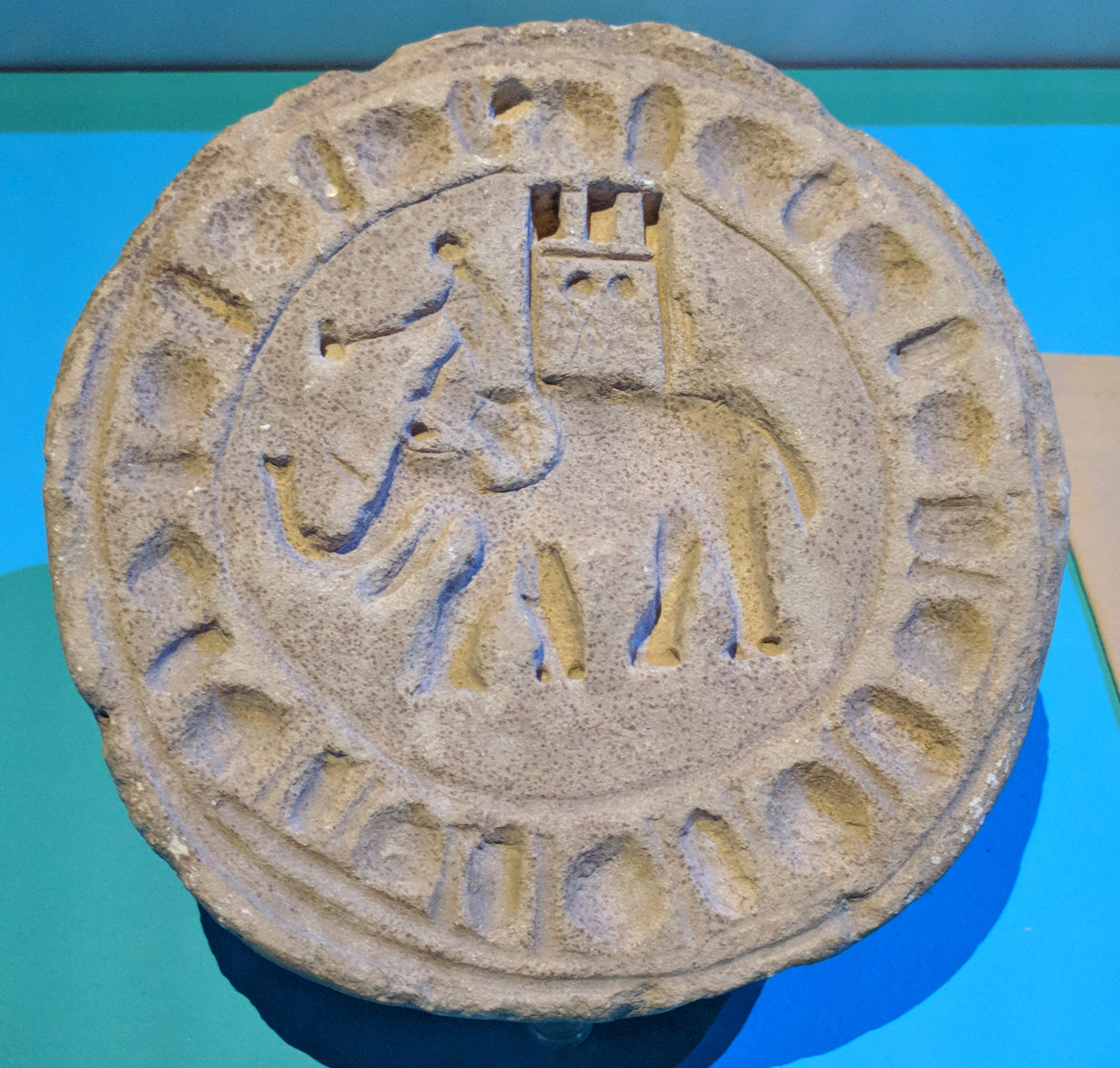 Bread stamp with elephant image (Egypt, 4th/5th century, limestone) - Collection: Allard Pierson Museum